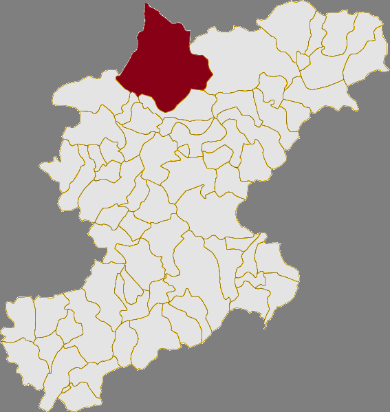 Comune locator map of Cortina d'Ampezzo in the Province of Belluno, Italy.